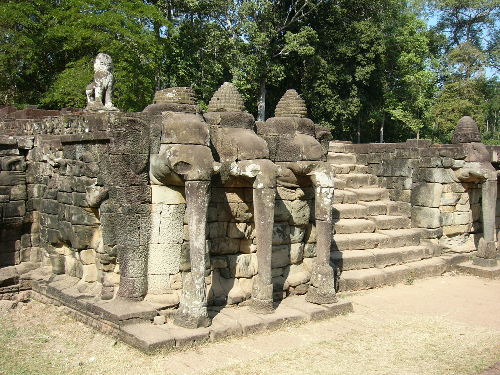 Elephant heads from the Elephant Terrace in Angkor, Cambodia. Picture taken in December 2004.